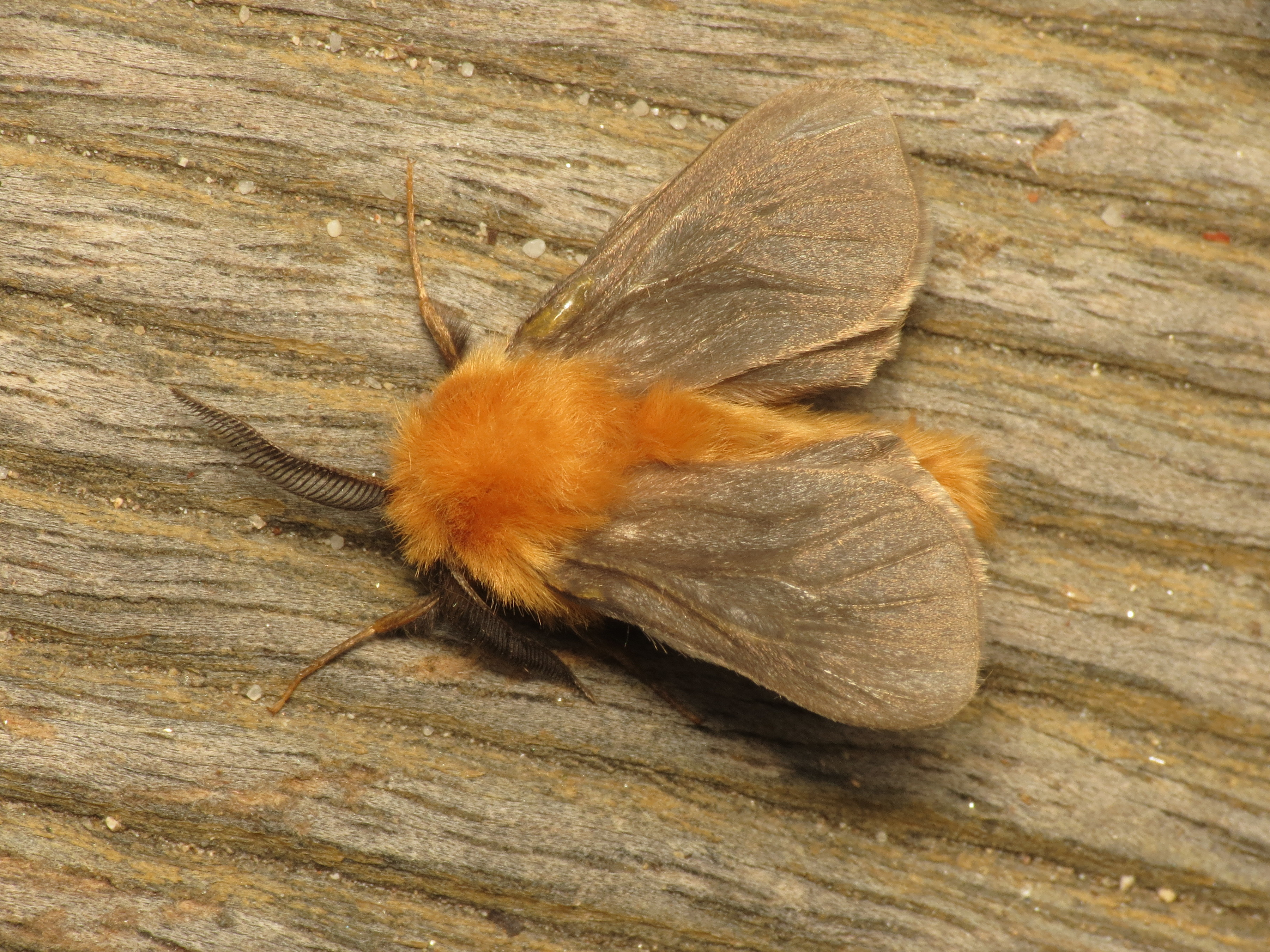 Plutorectis sp., perhaps Plutorectis xanthochrysa Meyrick & Lower 1907, to MV light, Jindabyne, NSW, 9/10 January 2014